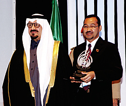 This is an image of Professor Abdul Latif Ahmad receiving the Prince Sultan Bin Abdulaziz International Prize for Water from Prince Saud Bin Abdulaziz at the 2006 awards ceremony held in Riyadh, Saudi Arabia in November of 2006 concurrenty with the 2nd International Conference on Water Resources and Arid Environments